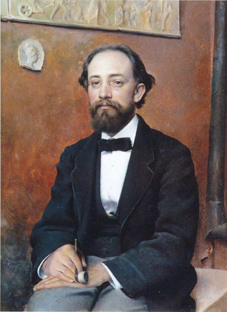 Sculptor Walter Runeberg (1838–1920), painted in Paris.